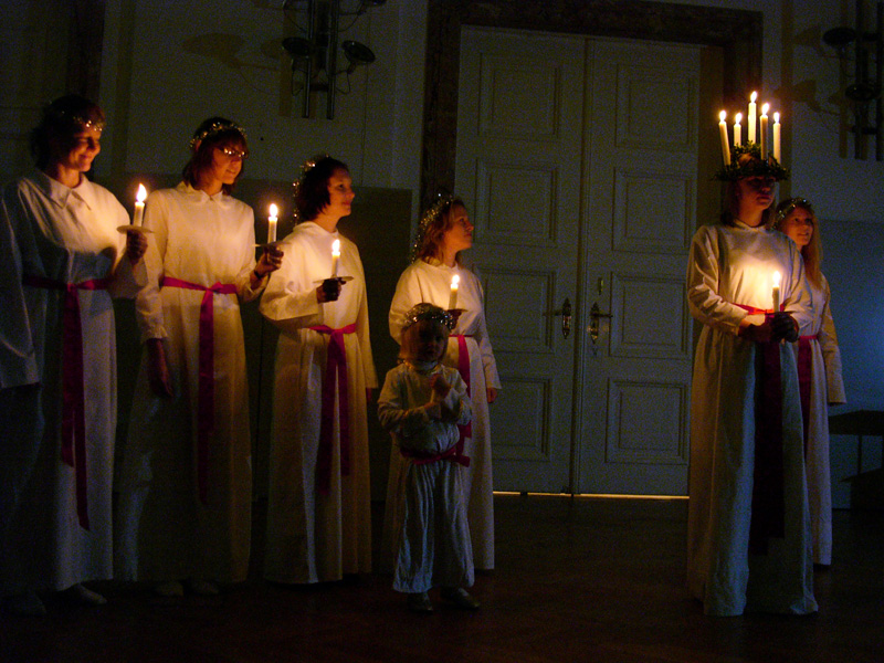 Swedish girls singing during Saint Lucy's Day (Lucia) celebrations in Vienna, Austria.